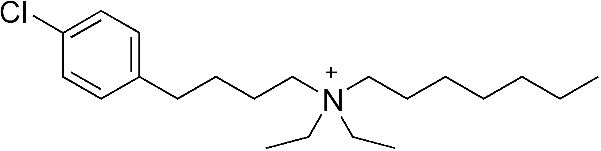 chemical structure of Clofilium